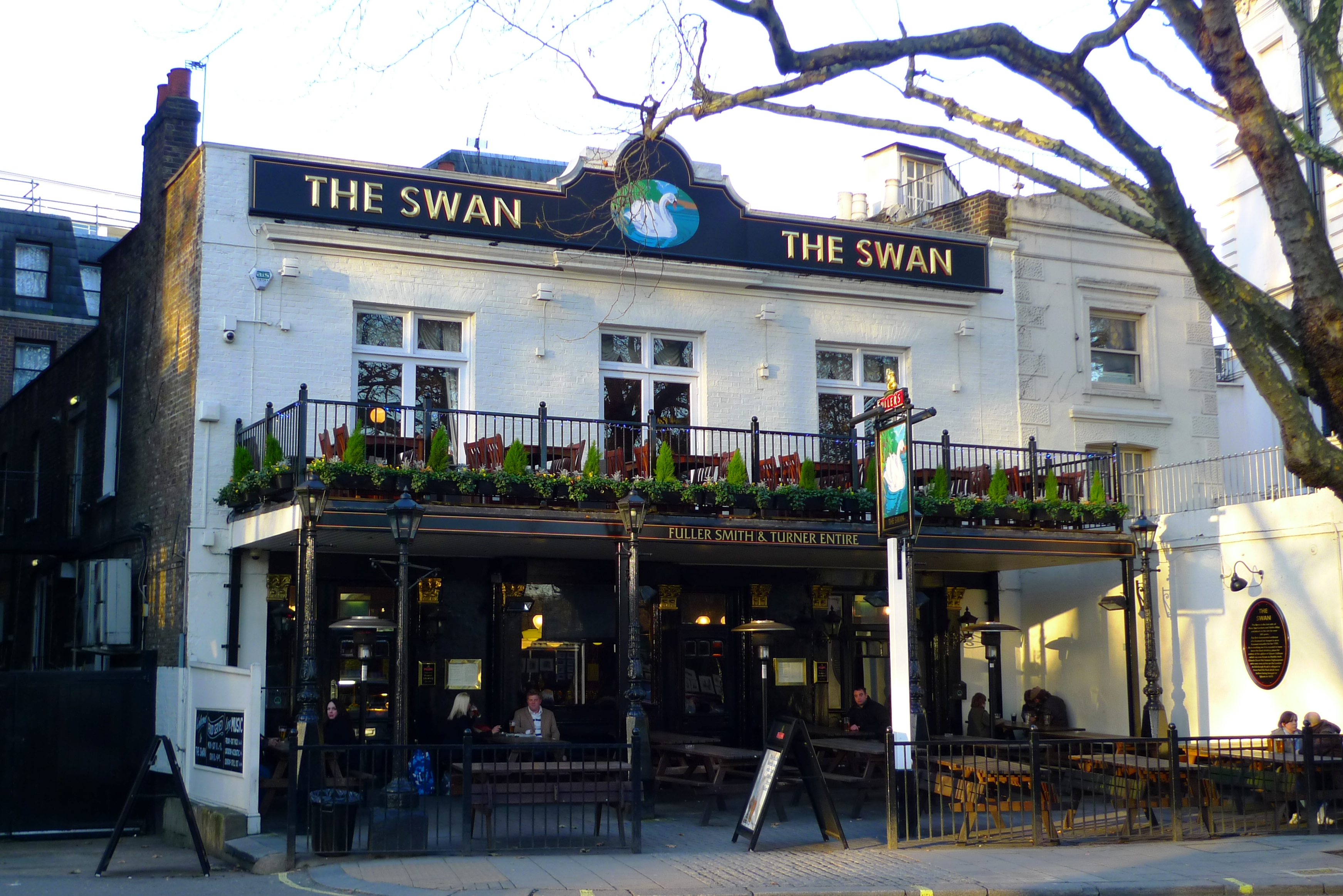 A pub opposite Hyde Park, along the north side. (Older photo of it, prior to being taken over by Fuller's.) Address: 66 Bayswater Road. Owner: Fuller Smith Turner (website); Punch Taverns [Spirit Group] (former); Watney Combe Reid (former). Links: Fancyapint Beer in the Evening Qype